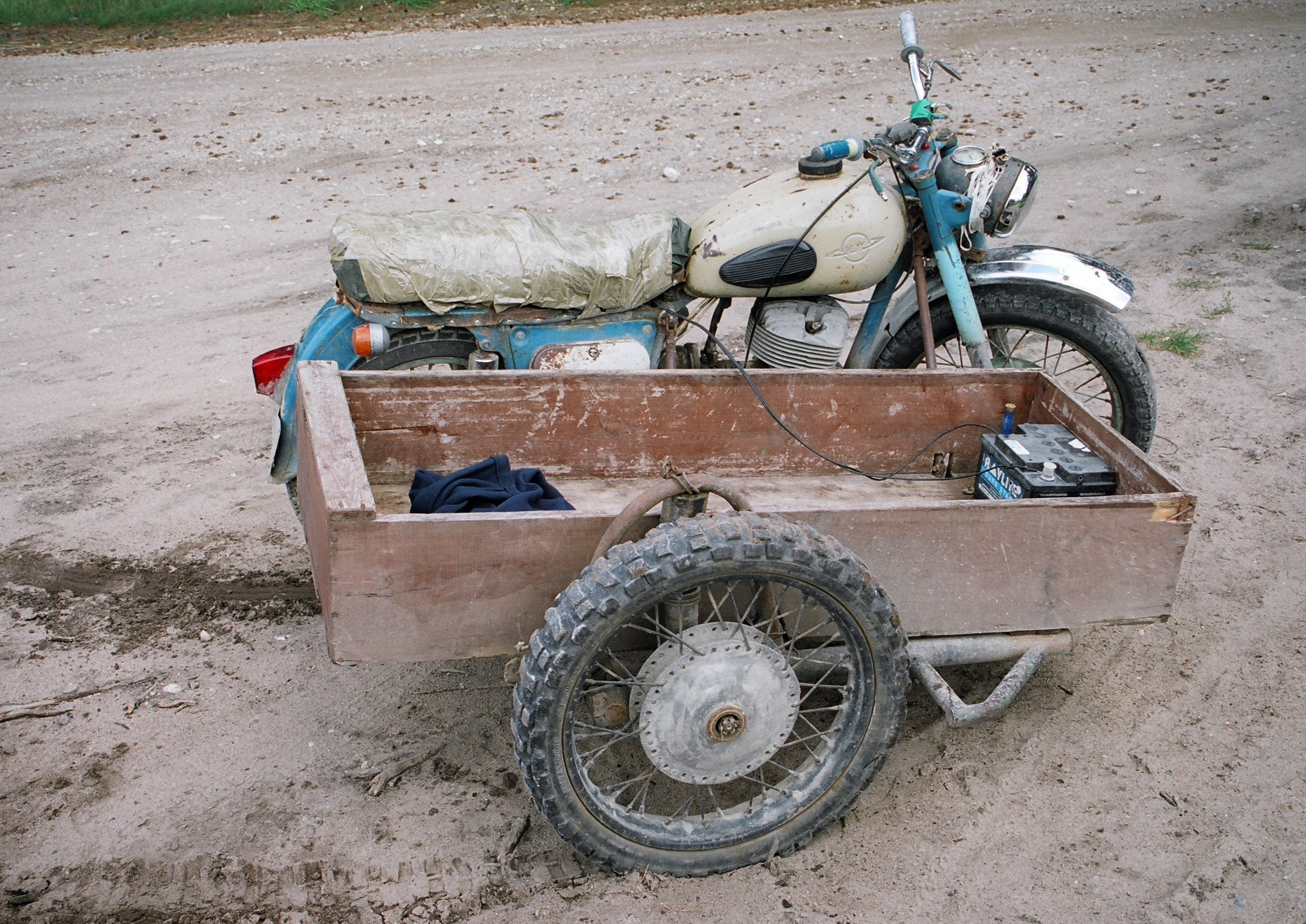 Motocycle Iz, picture taken in 2005 in Kihnu